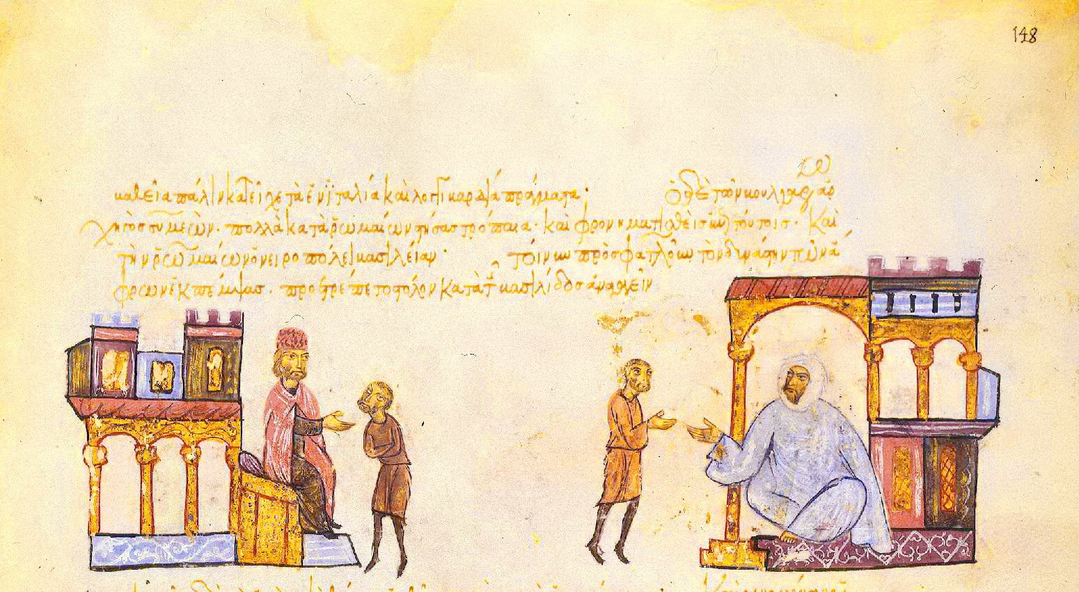 Simeon I of Bulgaria sending envoys to the Fatimid Caliph Ubayd Allah al-Mahdi. Madrid Skylitzes